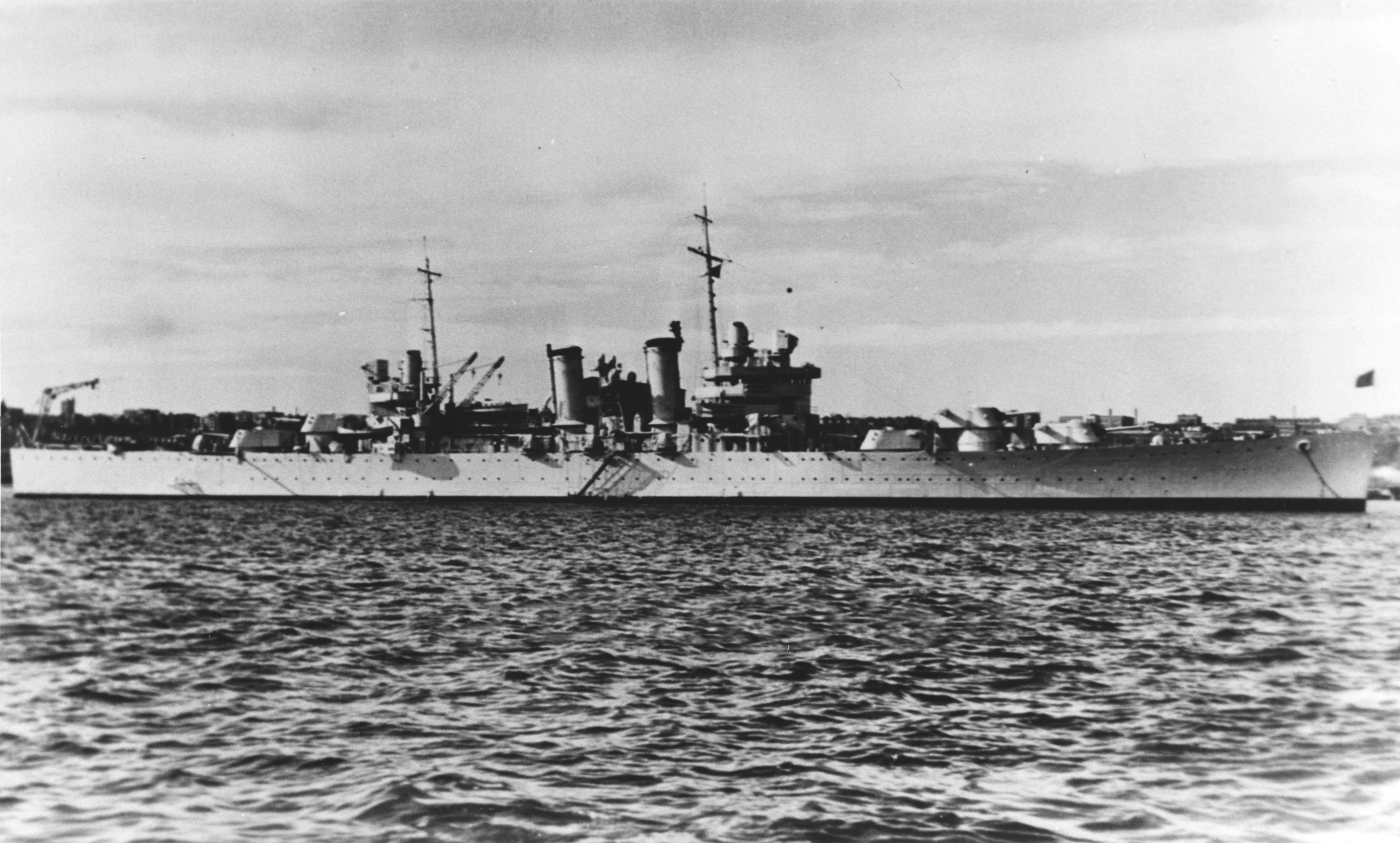 The U.S. Navy light cruiser USS Phoenix (CL-46) at anchor, circa in 1939.